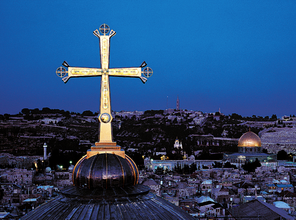 Golgotha Crucifix, designed by Paul Nagel, Church of the Holy Sepulchre in Jerusalem